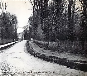 Scan of an old postcard - Pavé des Gardes or Route des gardes - Meudon - France.